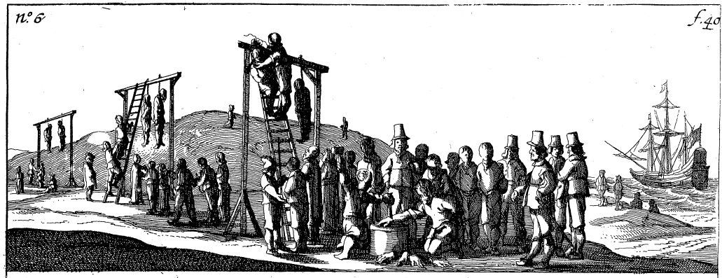 This is a figure from the article "The Abrolhos Tragedy", which appeared in The Western Mail, Christmas Edition, 24 December 1897, Page 10. It is a detail cropped from Plate 6 of the 1647 Dutch book Ongeluckige voyagie, van't schip Batavia ("Unlucky voyage of the ship Batavia").